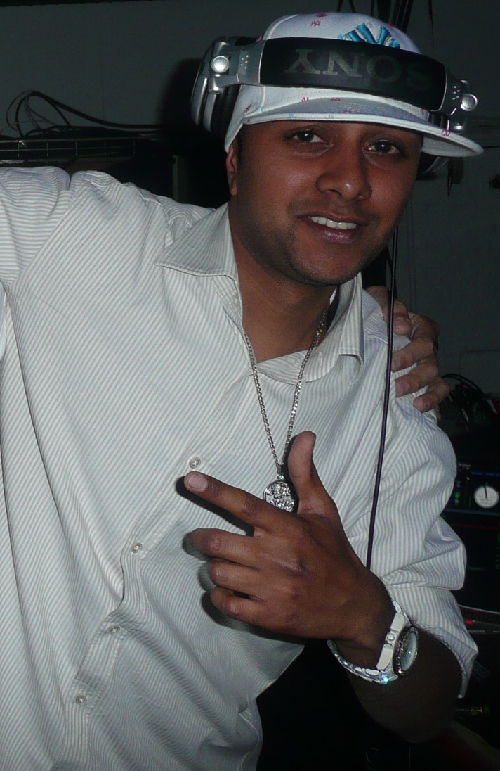 Cropped version of File:DJMilouz DJPink Star's and DjAssad.JPG DJ Assad (2008)